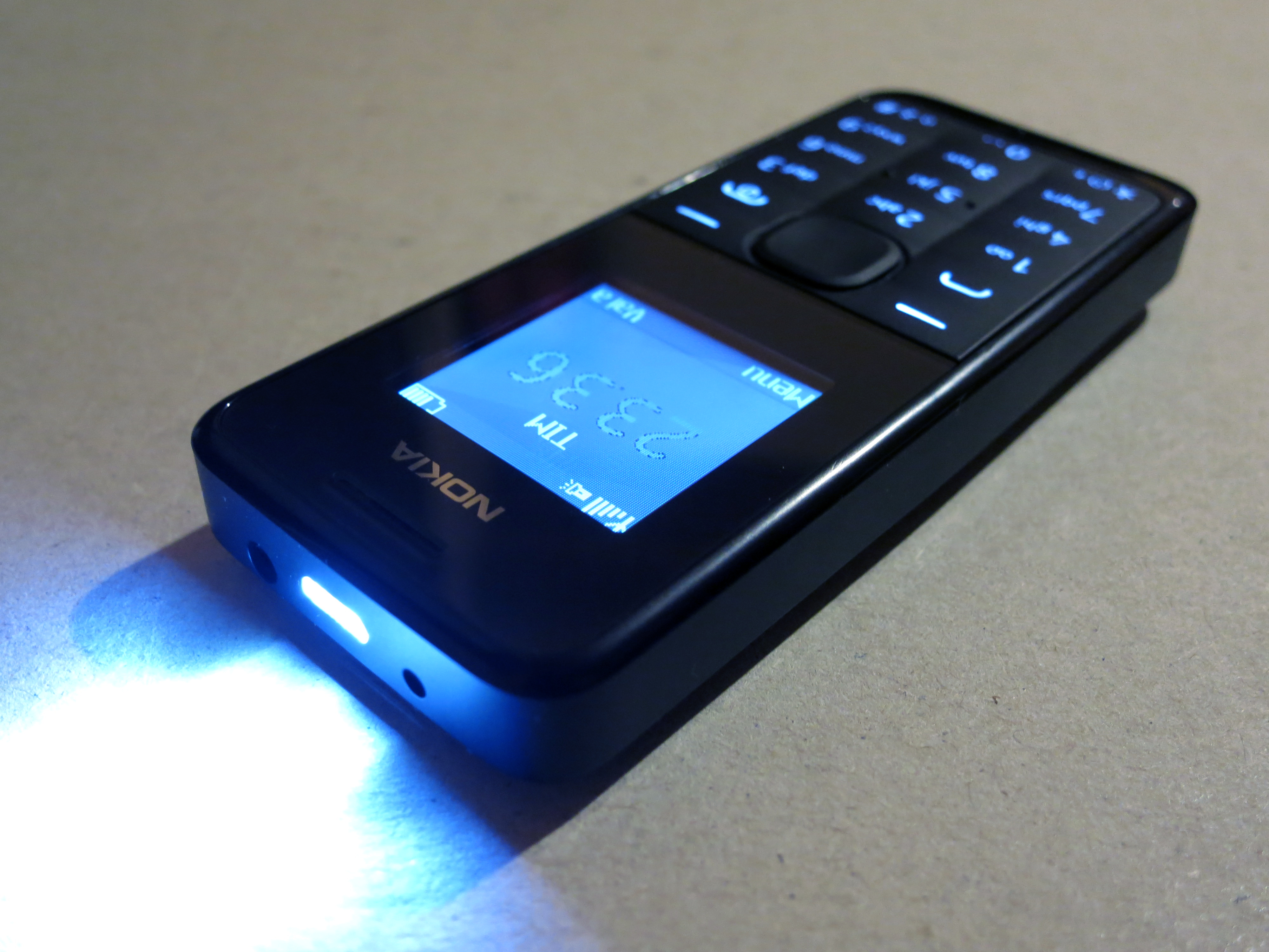 Nokia 105 purchased in Italy in november 2013